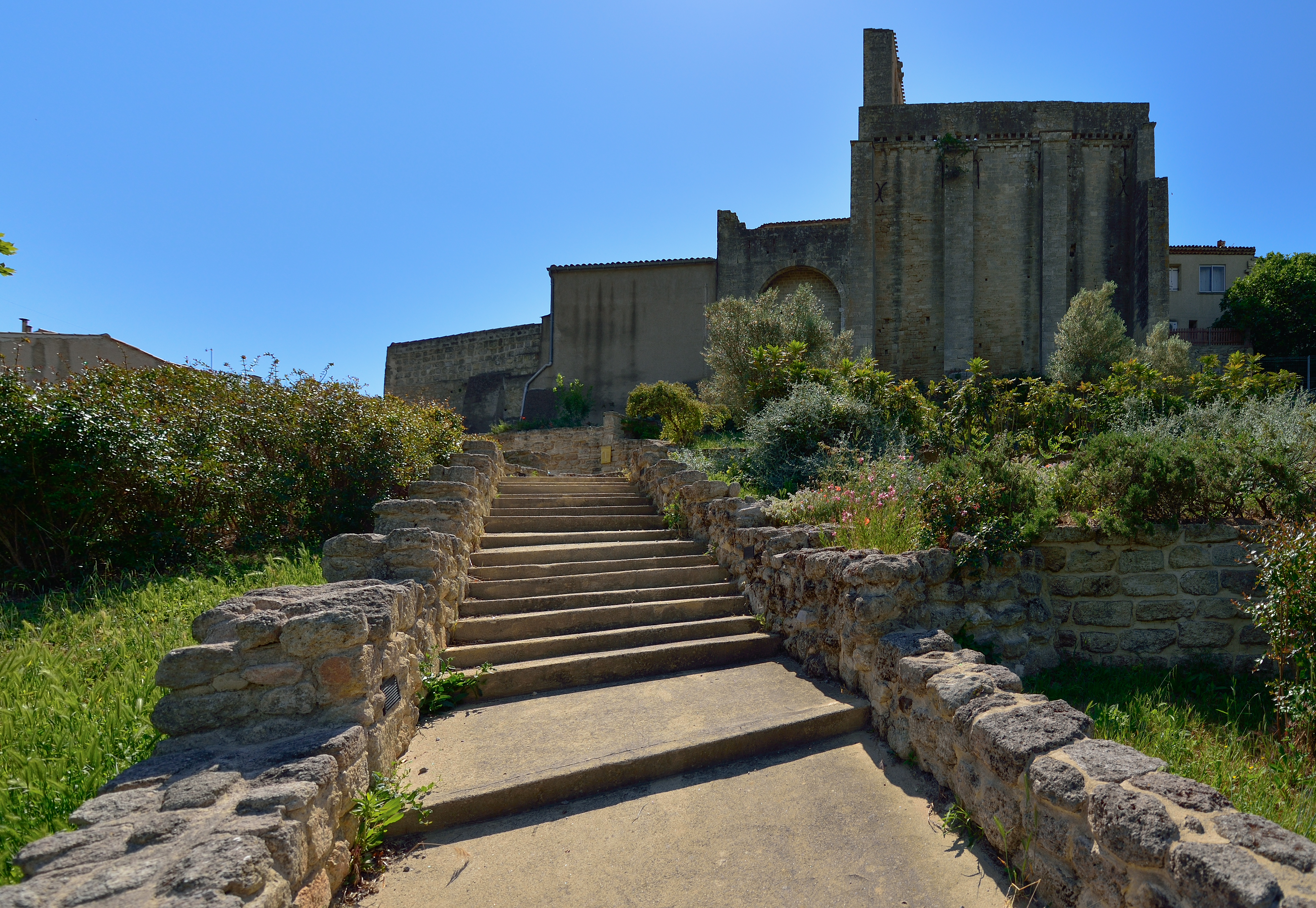 Église Saint-Pierre de Montbazin, roman Catholic church dating from the end of the XIIth century. View from northwest. Montbazin, Hérault, France. .